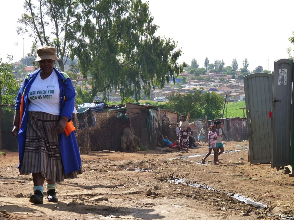 Kliptown is one of the most destitute areas of the large Soweto township, South Africa, November 2012. (S. Honorine VOA)